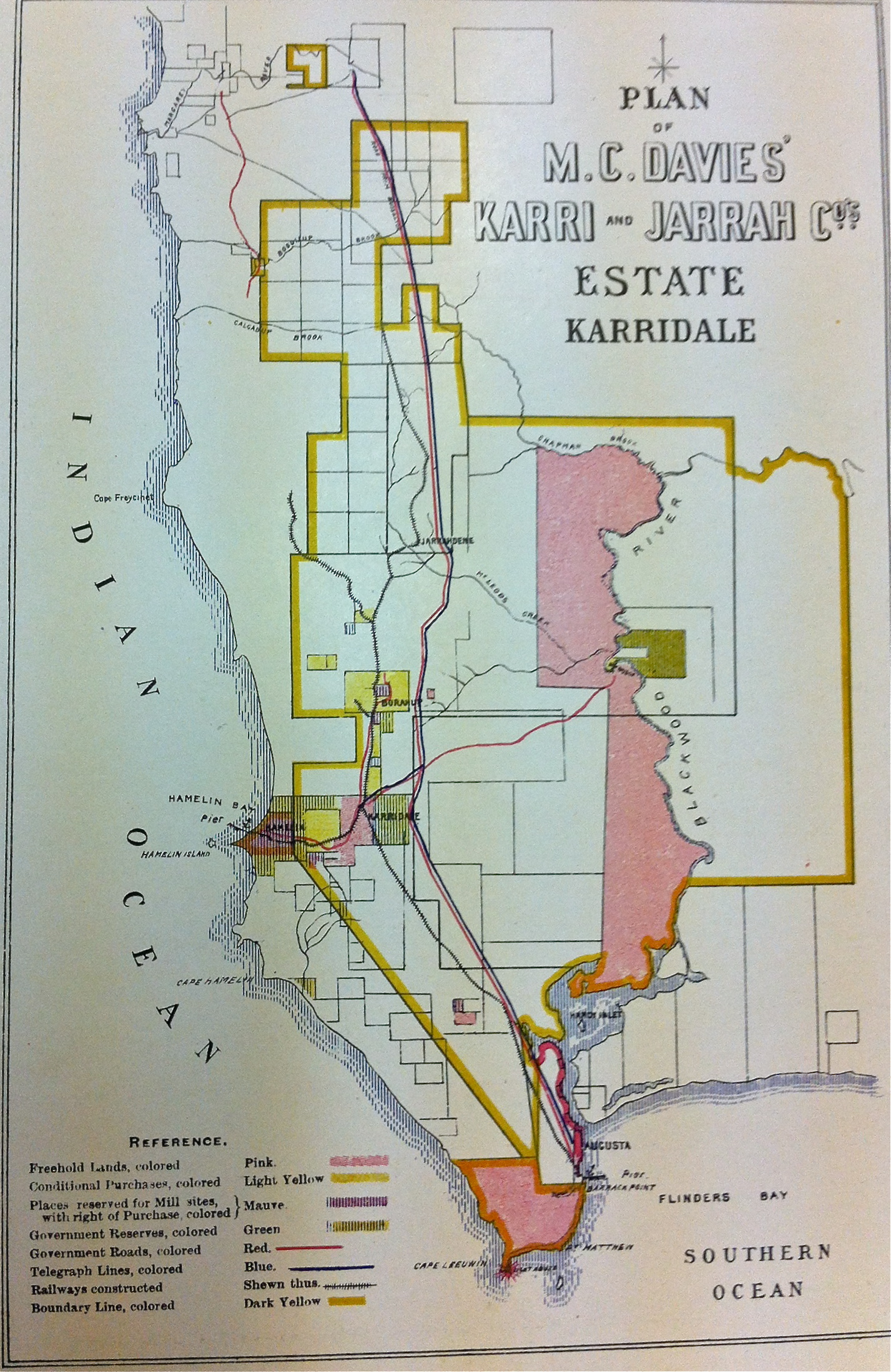 Map from - Citation | author1=M.C. Davies' Karri and Jarrah Co. Ltd. (issuing body.) | title=Karri & jarrah timbers | publication-date=1899 | publisher=London M.C. Davies' Karri and Jarrah Co. Ltd | url= | accessdate=15 December 2016